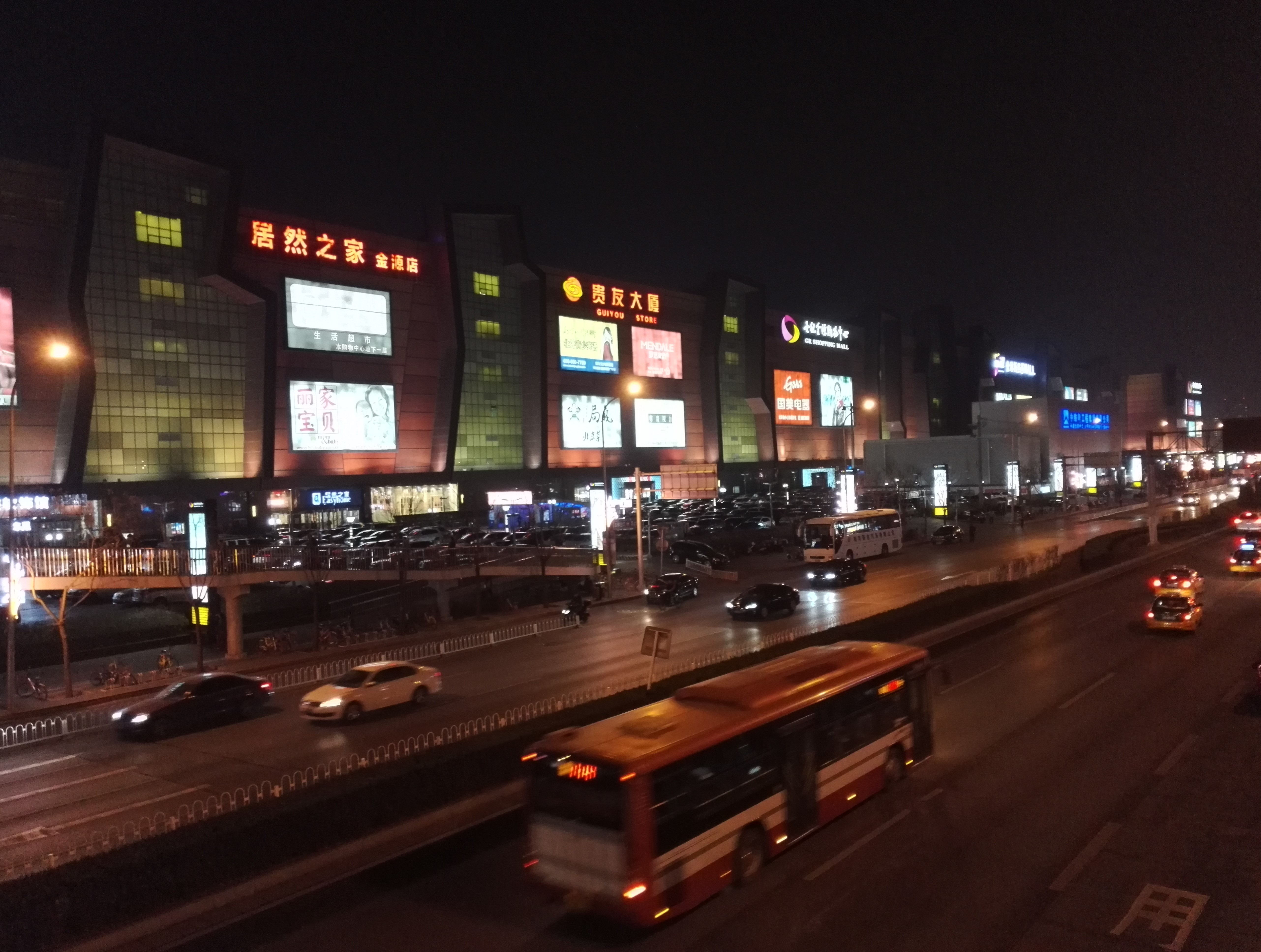 The exterior of Phase 1 Golden Resources Mall